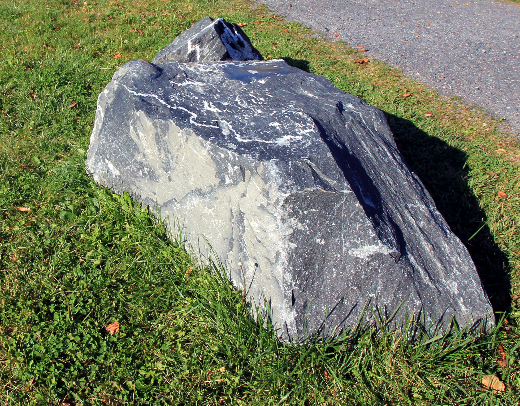 Sample of amphibolite from small village Libodřice shown in small geopark “Geologická zahrada” in Dolní Počernice, Prague, Czech Republic